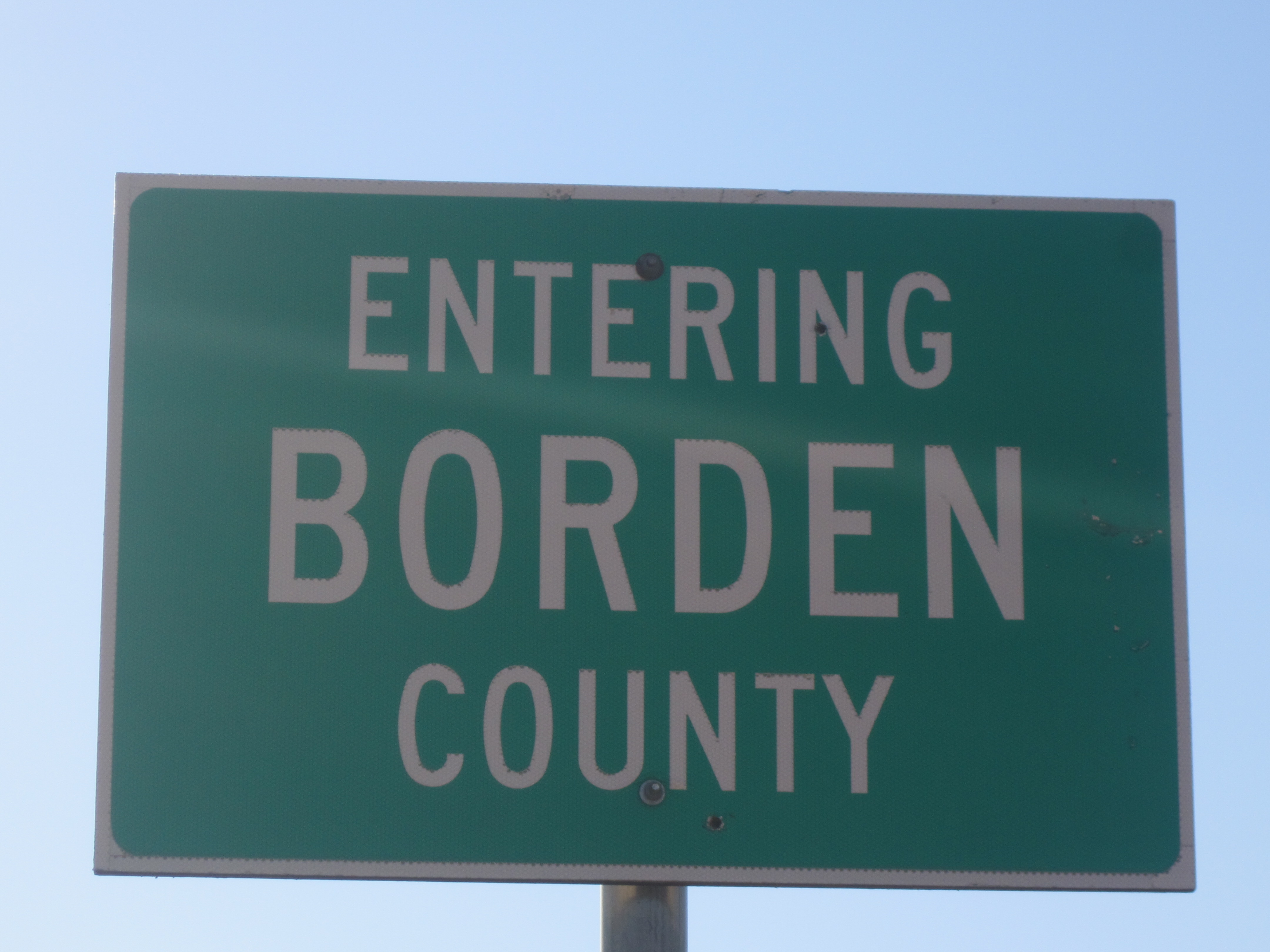 I took photo in Borden County with Canon camera.